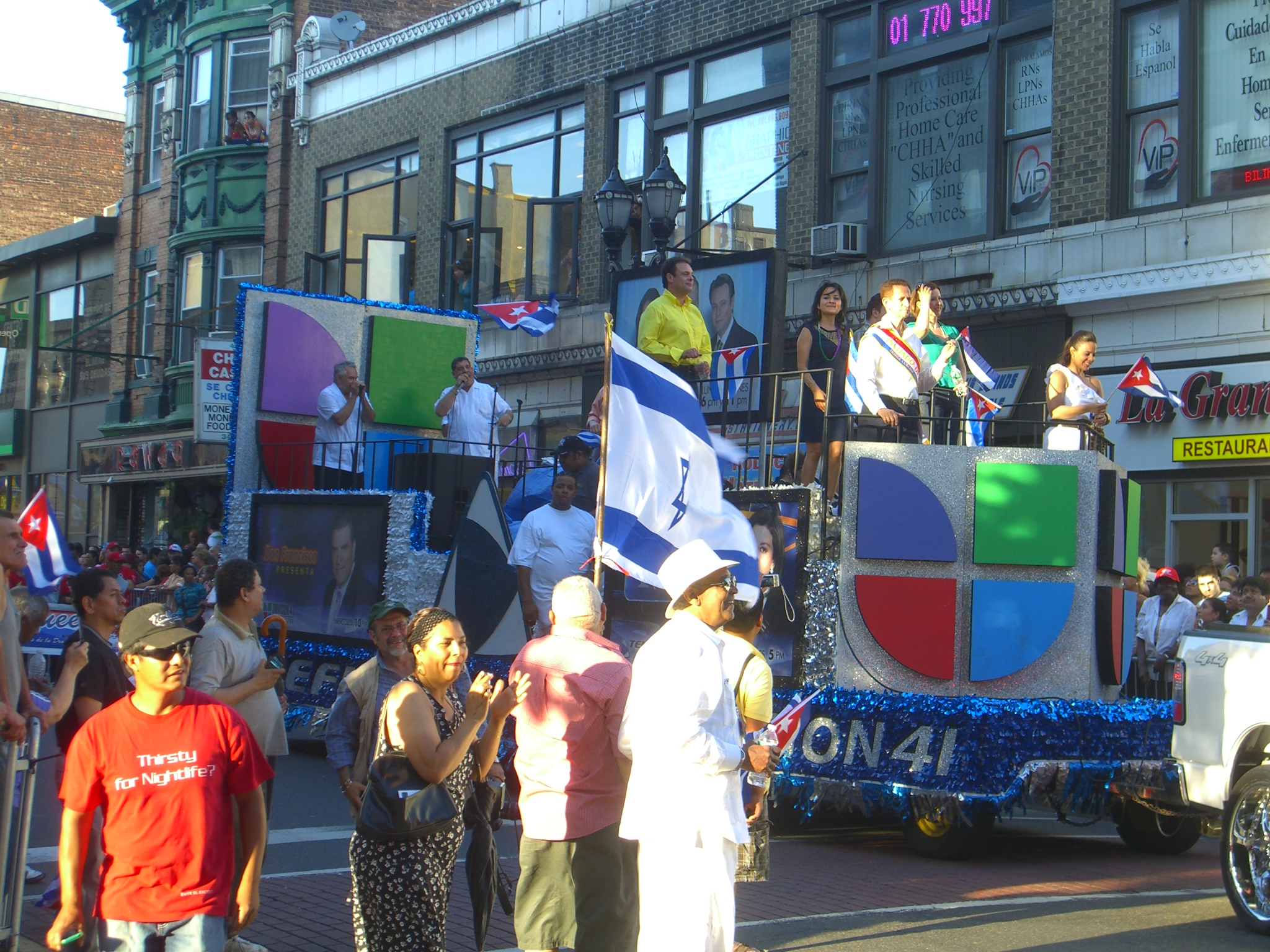 A Univision float in the 11th annual North Hudson Cuban Day Parade on Bergenline Avenue at 43rd Street in Union City, New Jersey, June 6, 2010. Photo by Luigi Novi. This photo may be used and modified, for any purpose, only if the photographer is visibly credited in each instance in which it is used. (See licensing information below.) For more information on my photos, you can contact me here.